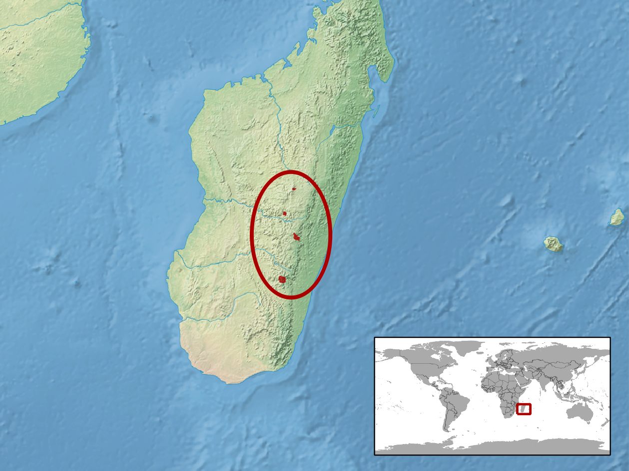 geographic distribution of Phelsuma barbouri (Native: Madagascar)